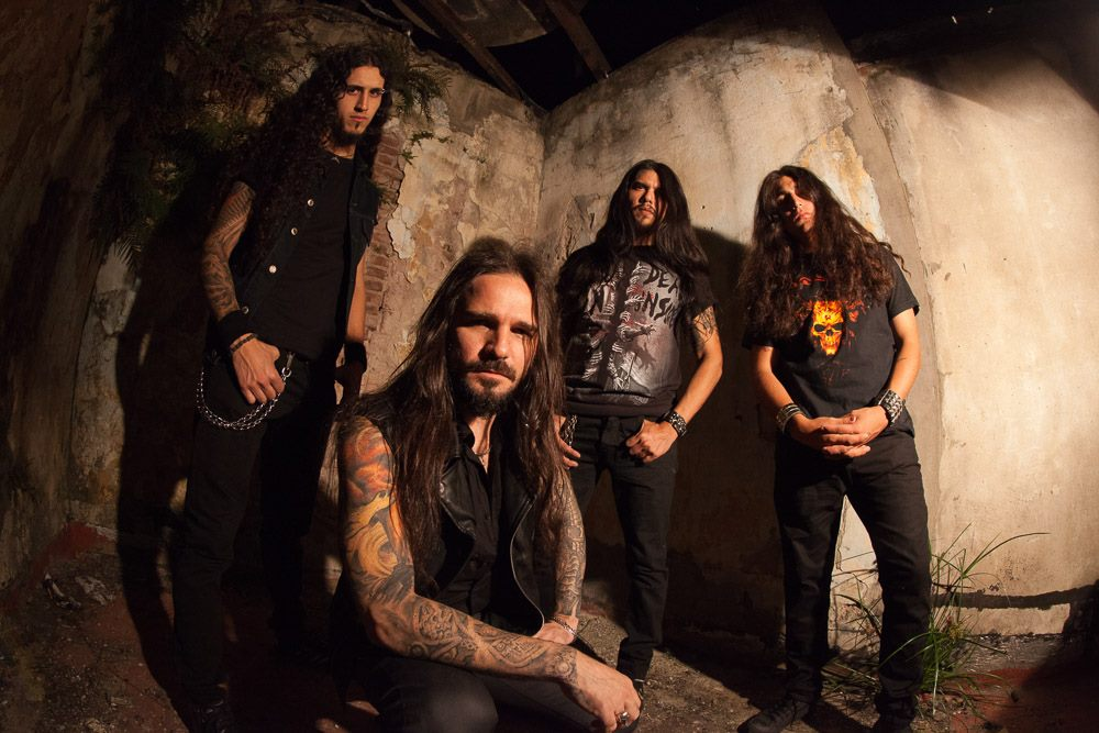 Members of the argentinian thrash metal band, Malicia.